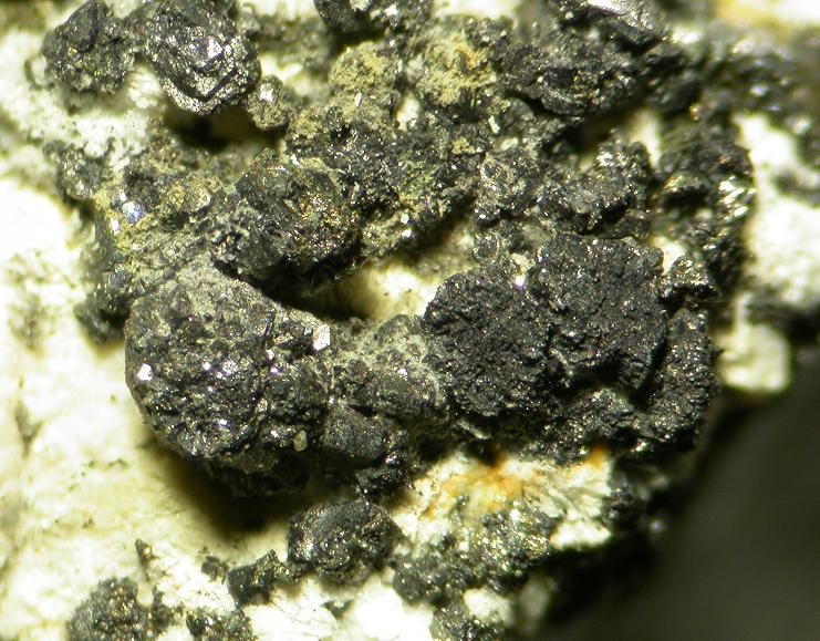 Villamanínite Locality: Providencia Mine, Cármenes, León, Castile and Leon, Spain Field of view 6 mm. Specimen and photo Leon Hupperichs.